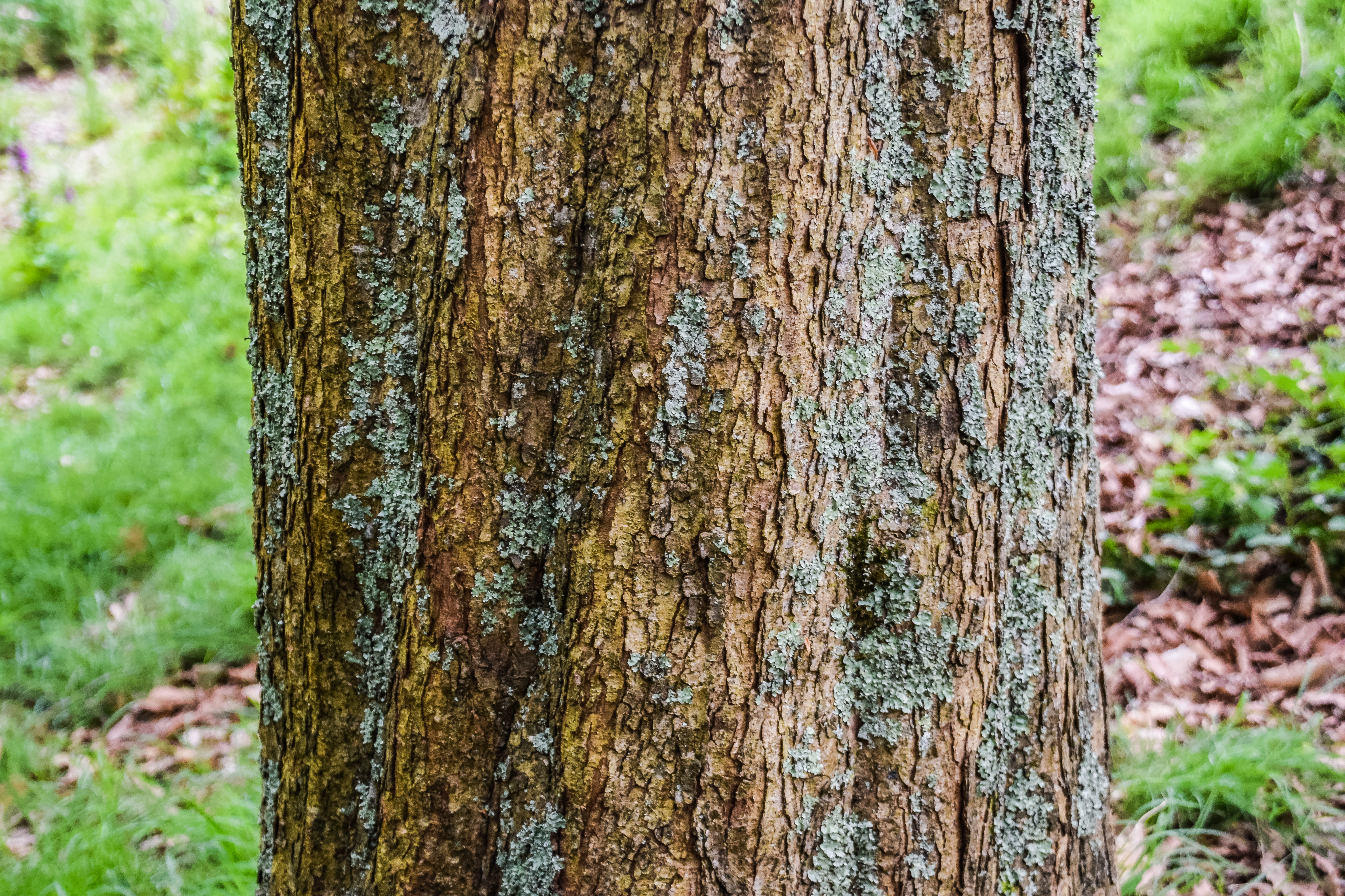 Quercus lancifolia in Hackfalls Arboretum, Gisborne Region, New Zealand